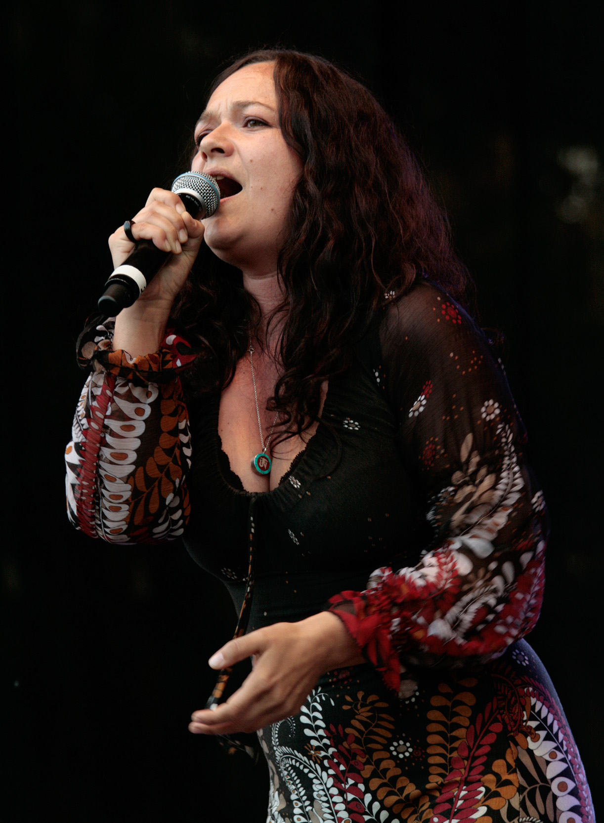 Meena Cryle, in concert with Claudia K.'s Woodstock Project at the Kaiserwiese (Prater, Vienna).